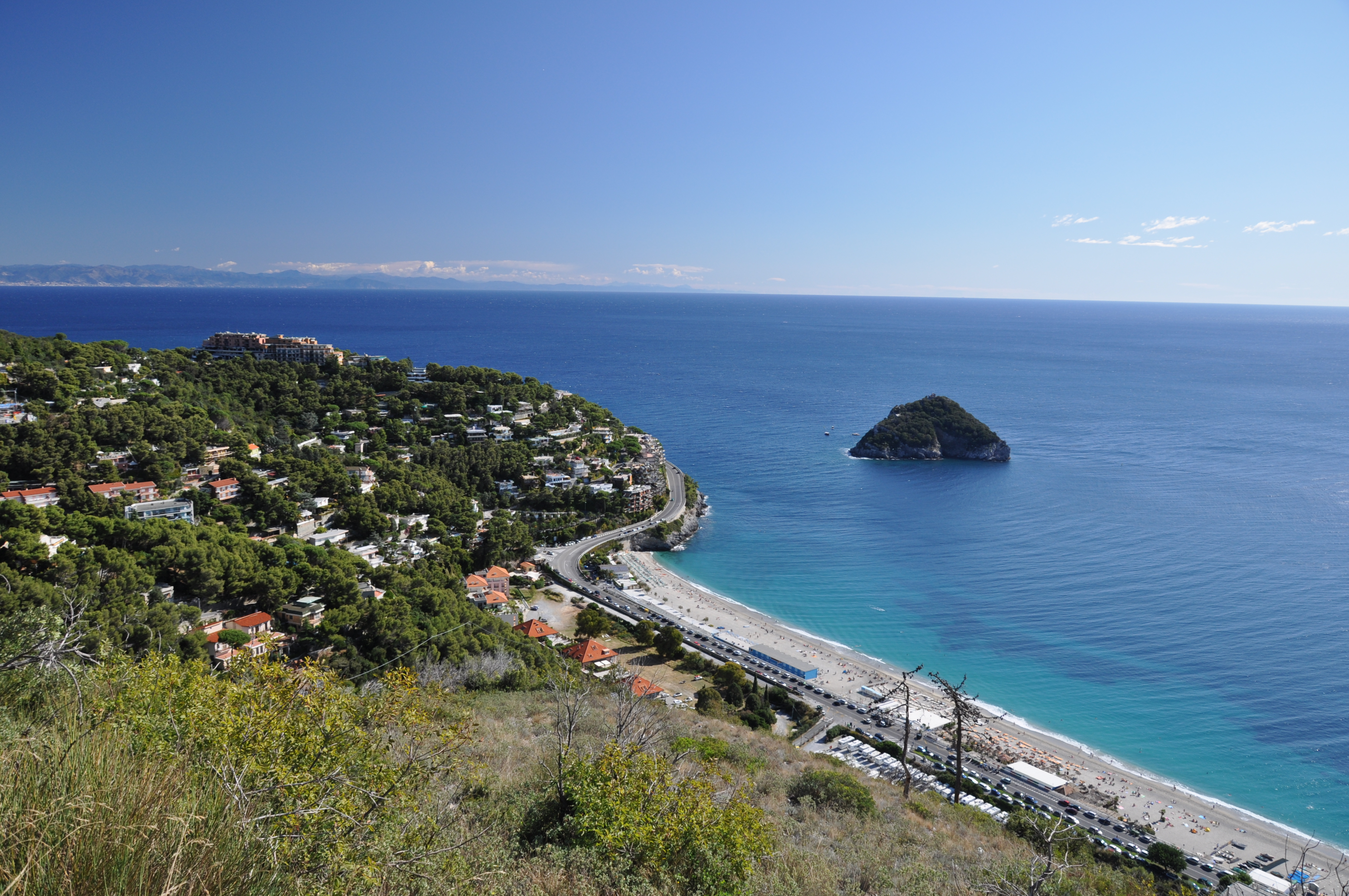 Bergeggi & Isola di Bergeggi Panorama from Via Romana